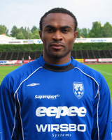 Stanley Festus